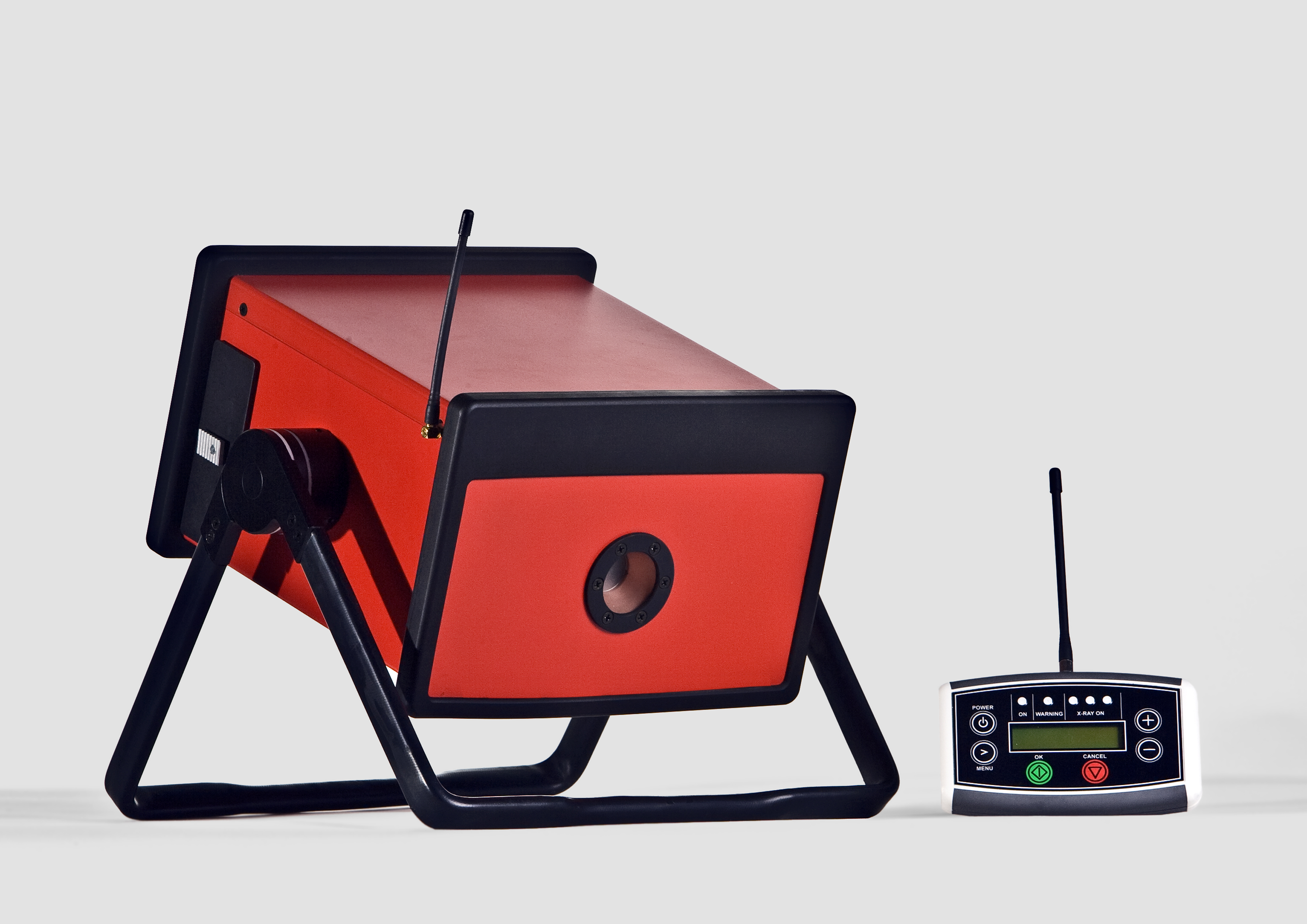 GemX-160 - Portable Battery Powered X-ray Generator used in Non Destructive Testing and in Security Applications. 20-160 kV with Beryllium window.